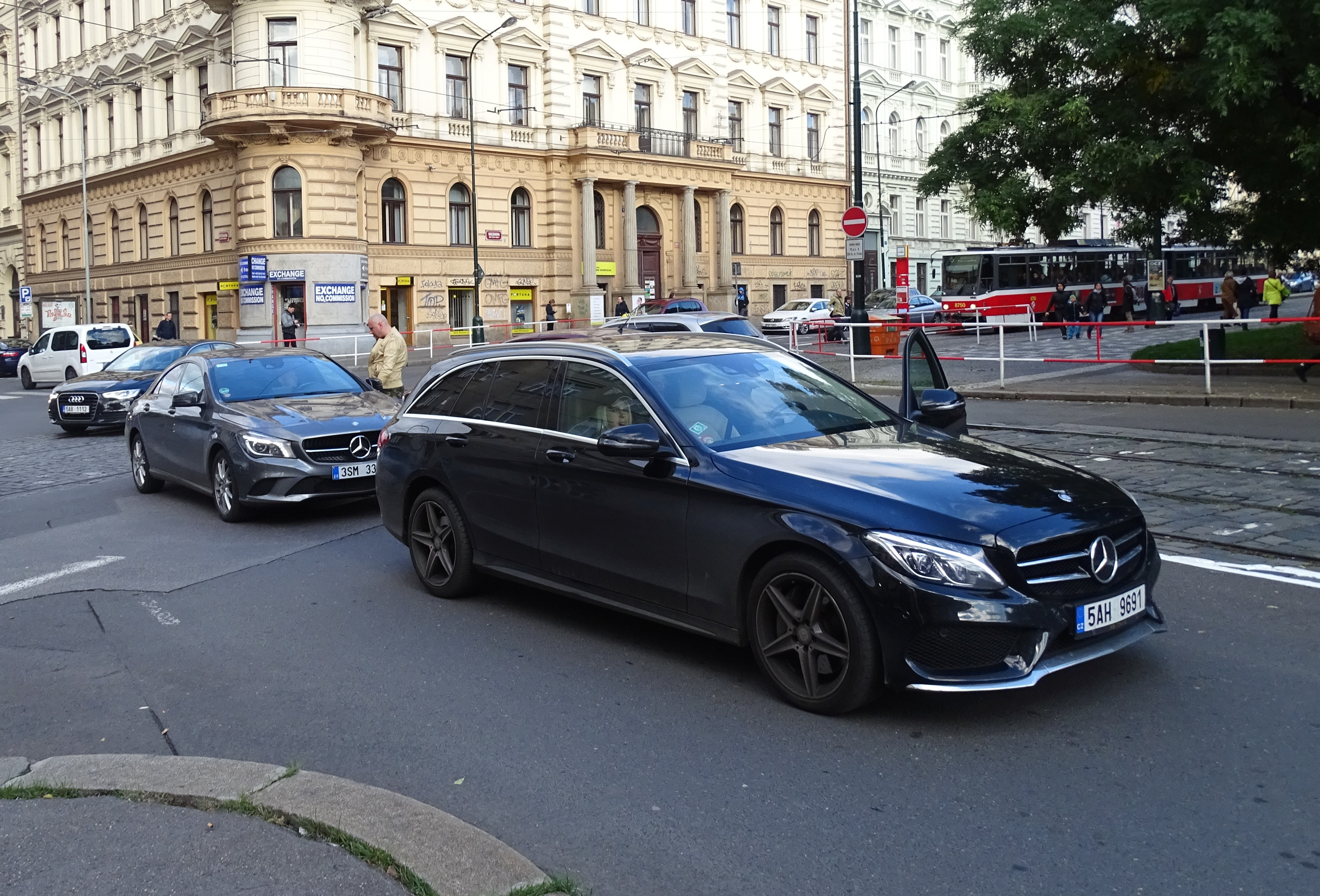 Prague-New Town, Czechia, Opletalova and Bolzanova street, automobiles.